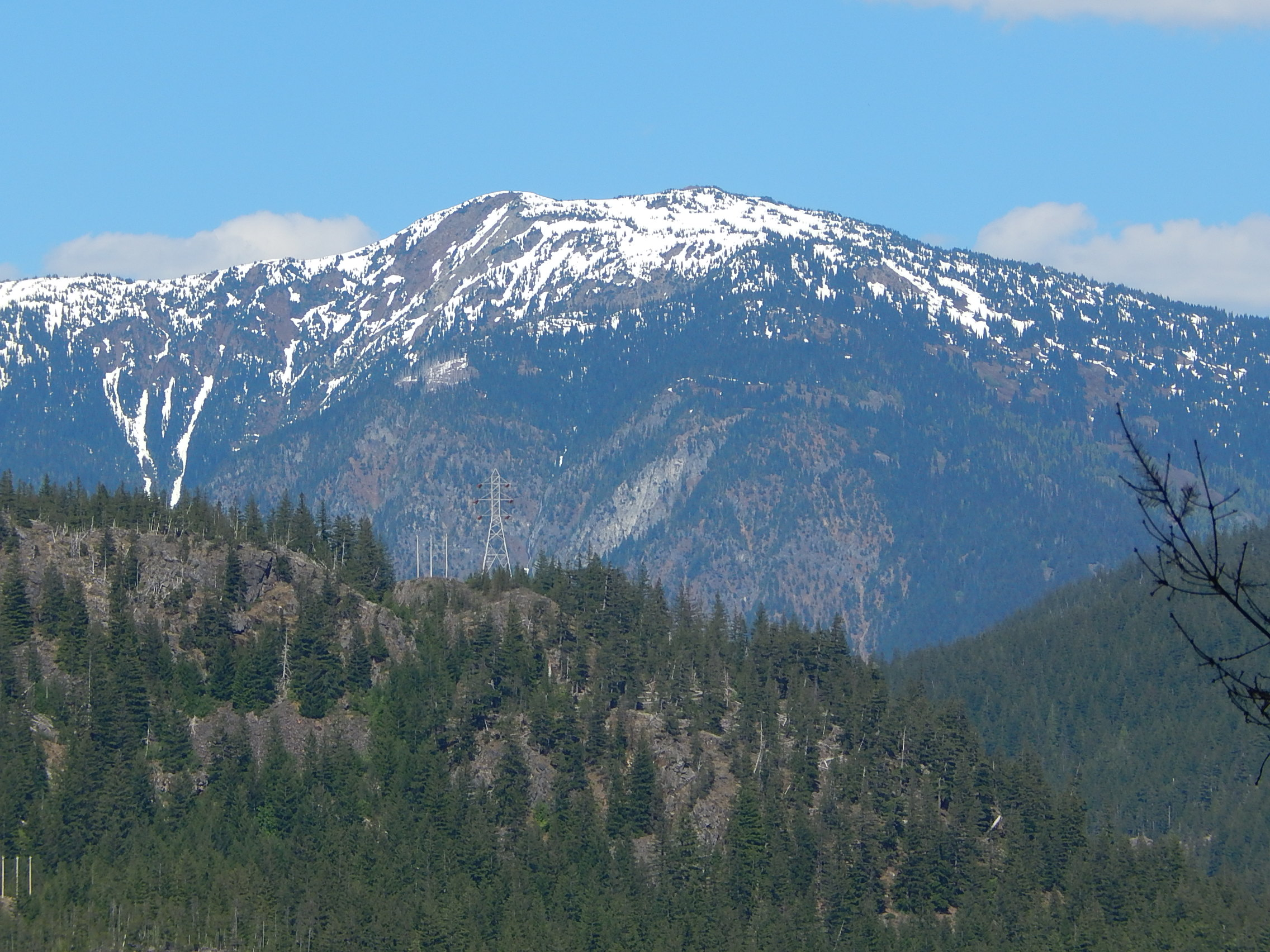 Little Jack Mountain 6745' in the North Cascades mountain range seen from Highway 20